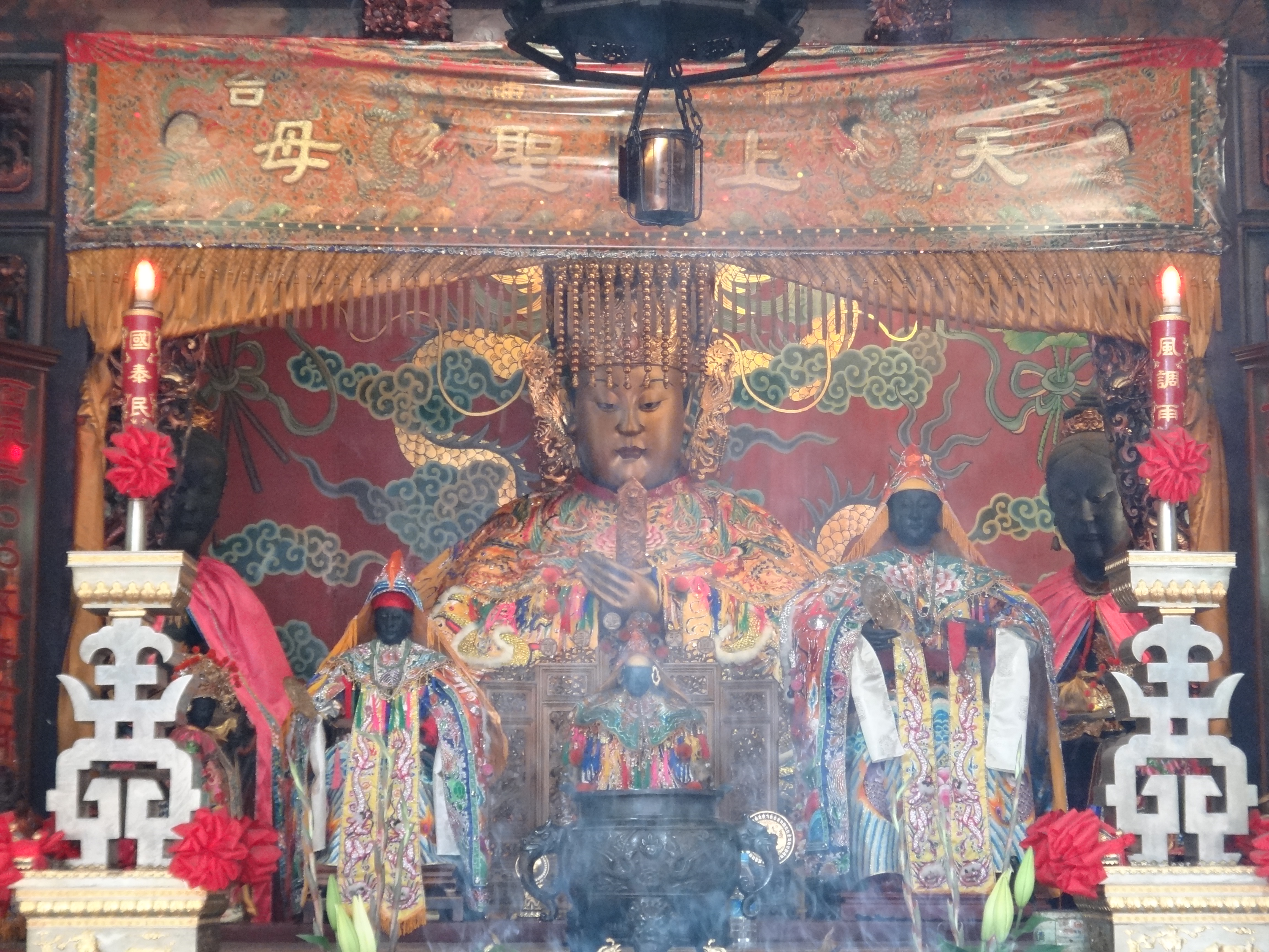 Main statue of Tainan Grand Mazu Temple